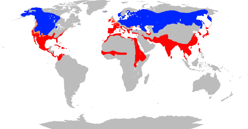 Anas clypeata world distribution map. Color key: Blue - breeding area. Red - non-breding area (winter). Orange - resident.